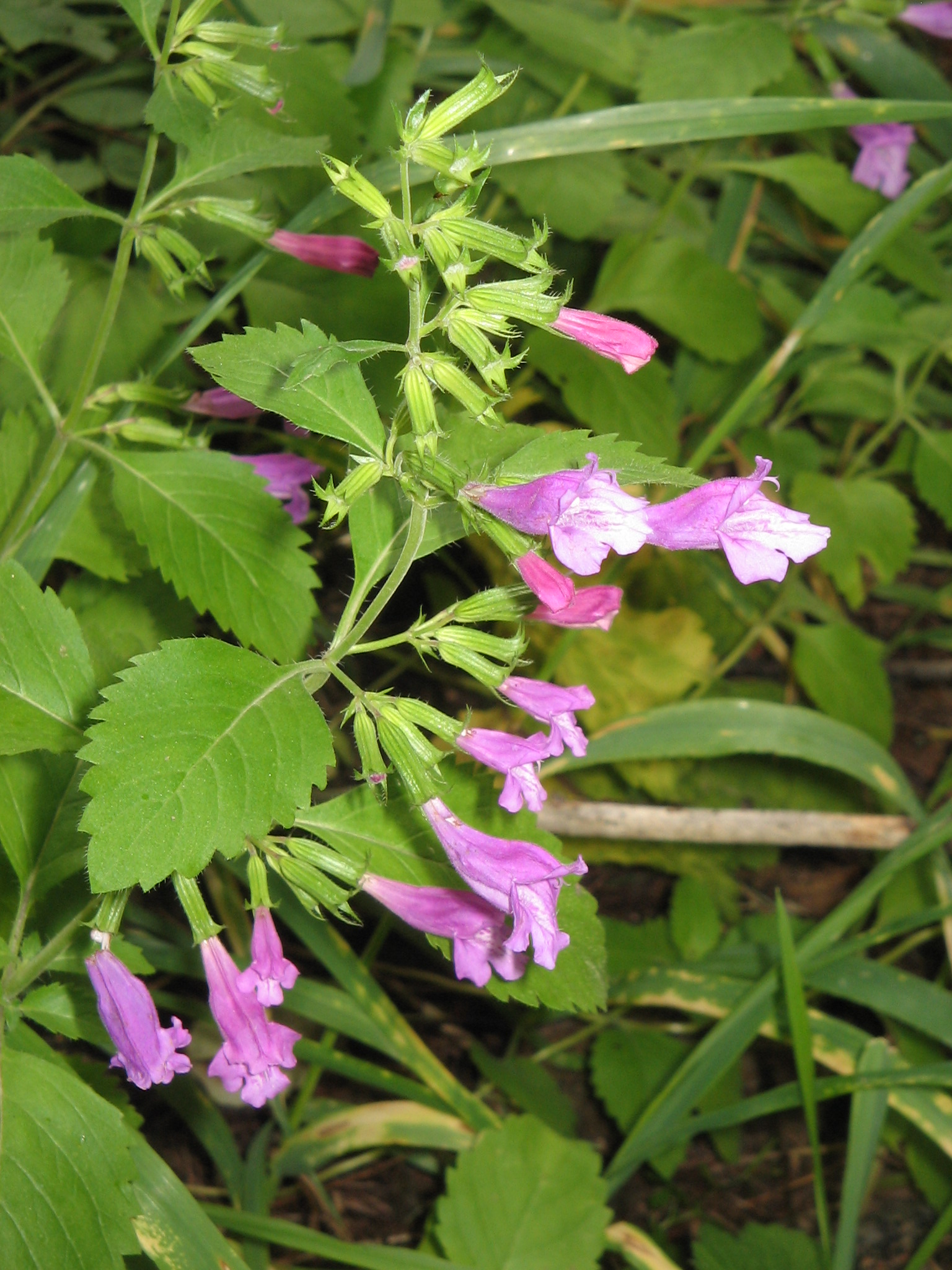 Calamintha grandiflora